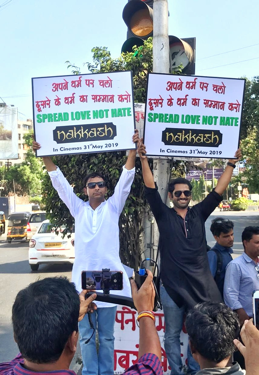 The star cast of Nakkash during cycle yatra and human hoarding campaign in Juhu, Mumbai